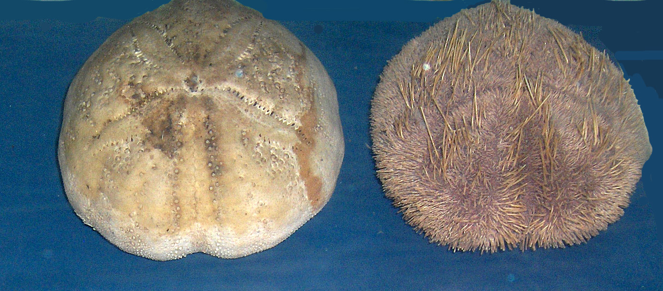 Spatangus purpureus, a sea urchin, belonging to the family Spatangidae